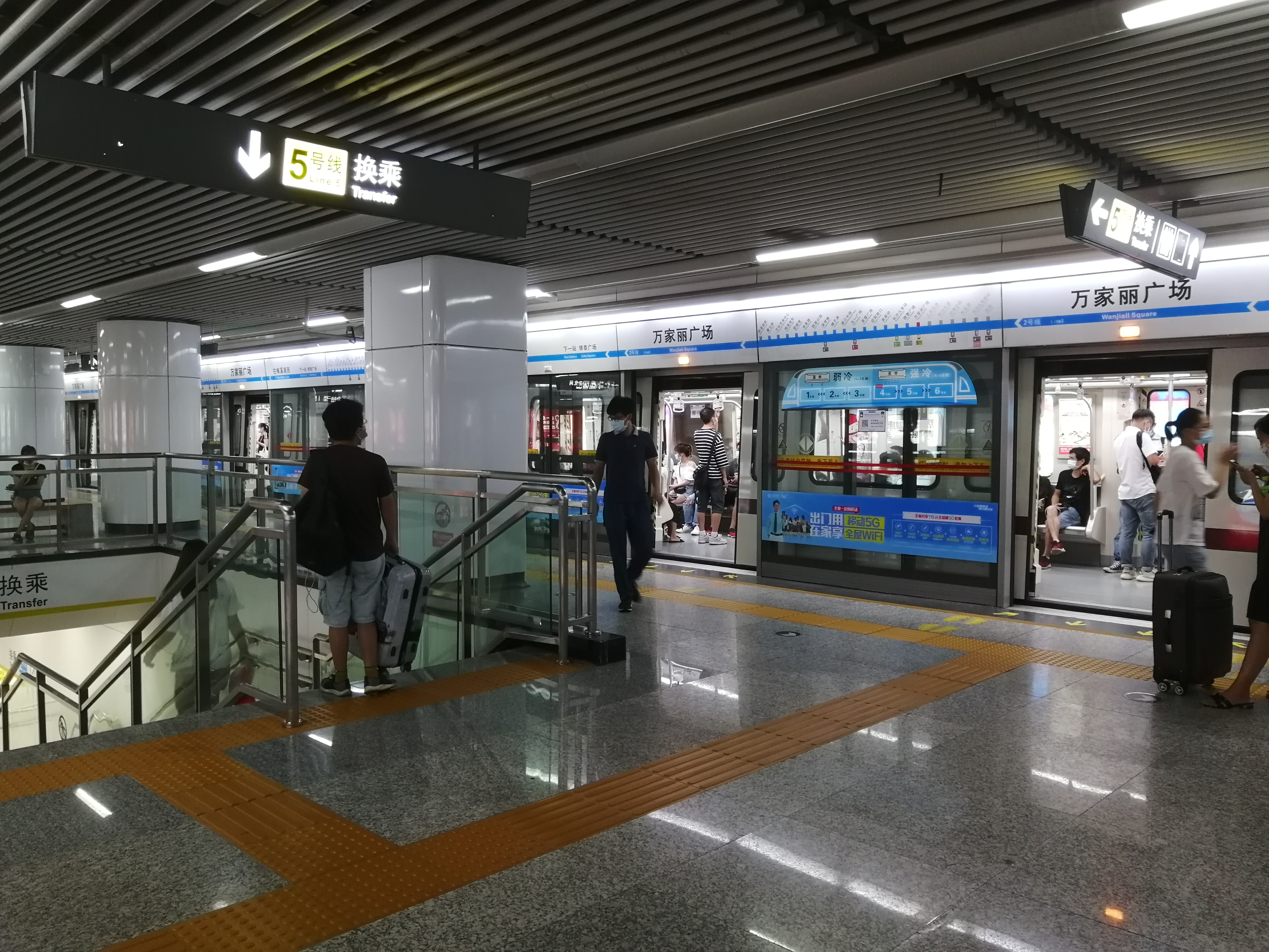 Passengers transferring from Line 2 to Line 5 in Wanjiali Square Station